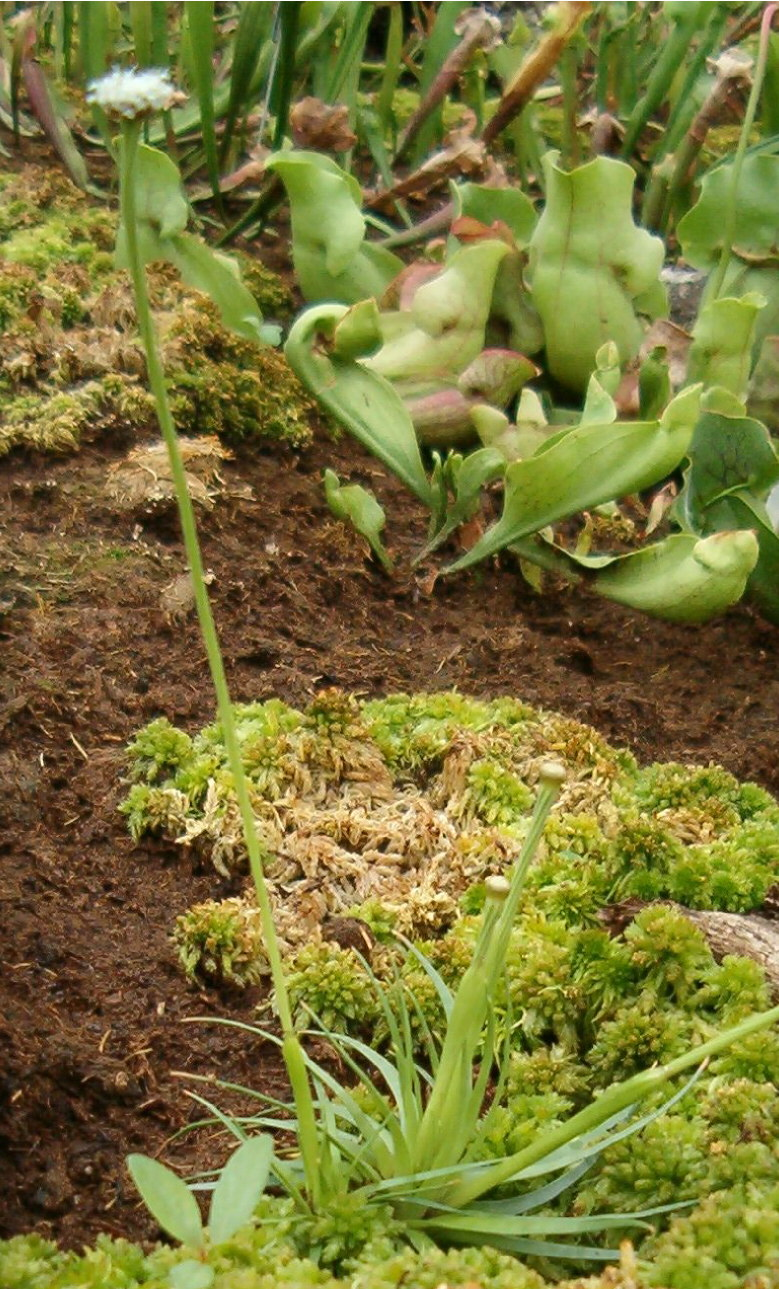 Location: Botanical Gardens Berlin Habitus and Inflorescence